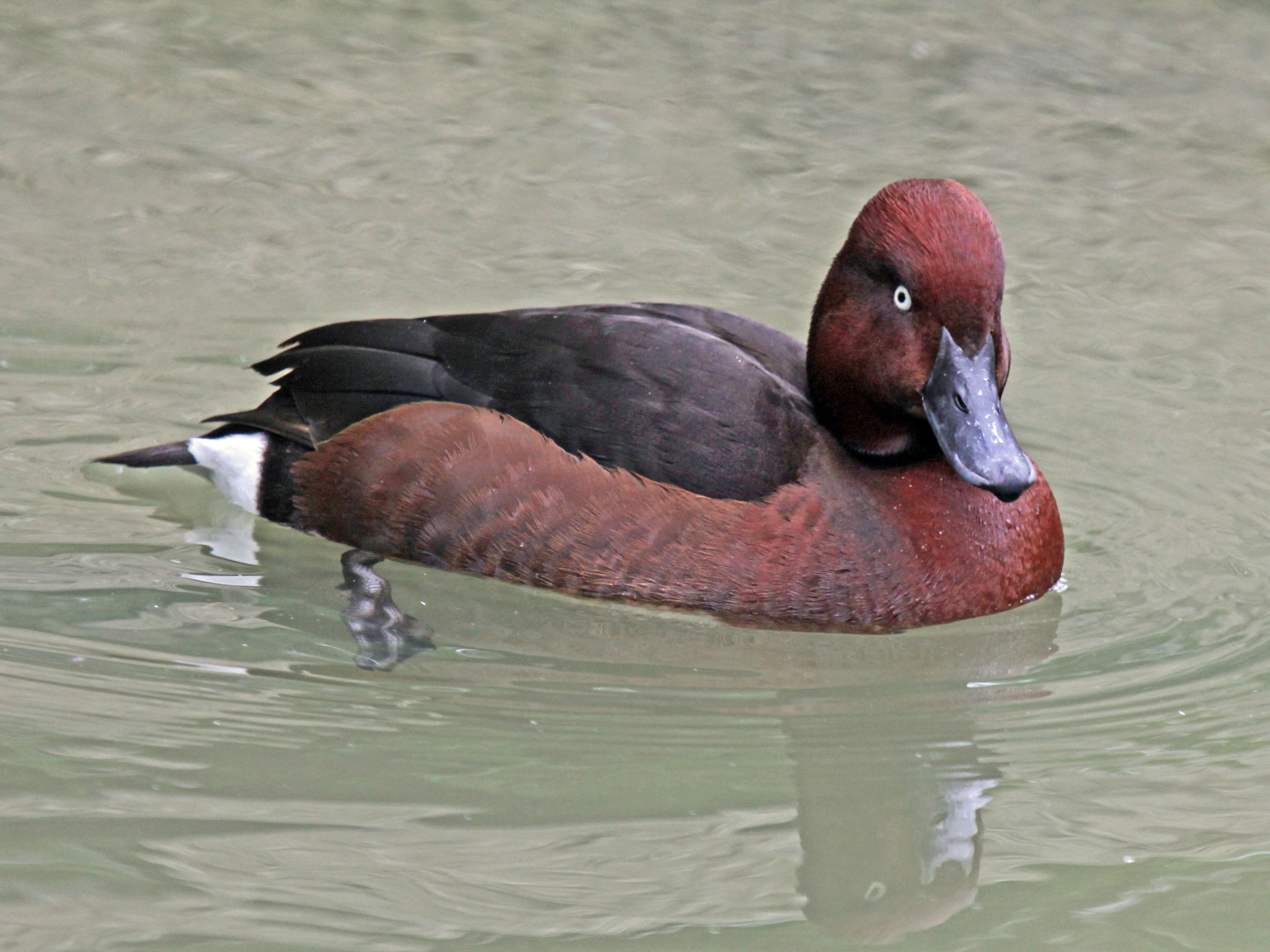 Male Ferruginous Duck, also Ferruginous Pochard (Aythya nyroca) - Sylvan Heights Waterfowl Park, Scotland Neck, North Carolina